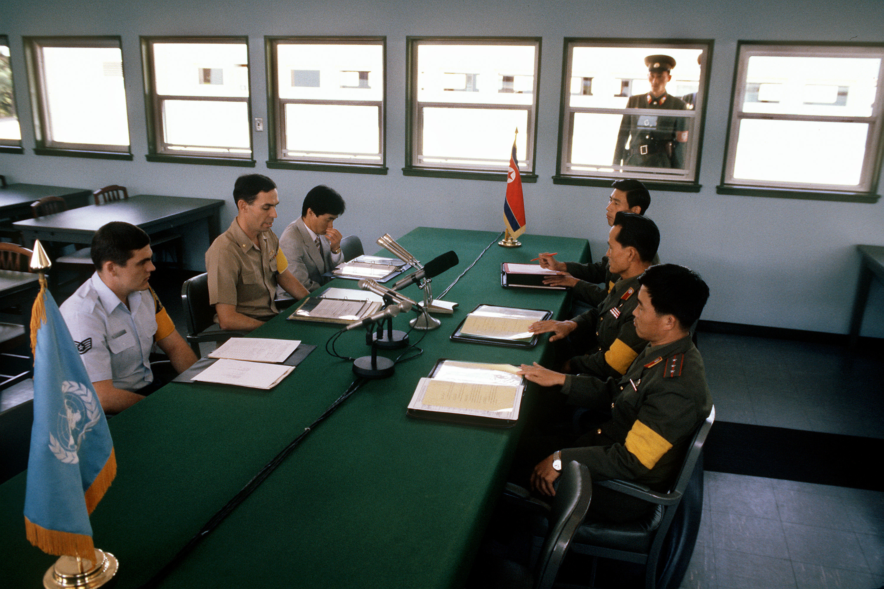 Staff Sgt. Jim Baker, United Nations Command Military Armistice Commission, left, and other security personnel from North and South Korea, attend a joint-duty officers meeting in the Military Armistice Building. The building is constructed directly over the line of demarcation between the two countries as indicated by the microphone cords on the table.